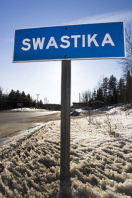 Swastika, Ontario, is a small town 575km north of Toronto. This town was formed early in the 20th century after the Northland Railroad was created. In 1908, the town officially received the name Swastika and the Swastika Gold mining company was established soon thereafter. Photo by Dario Ayala